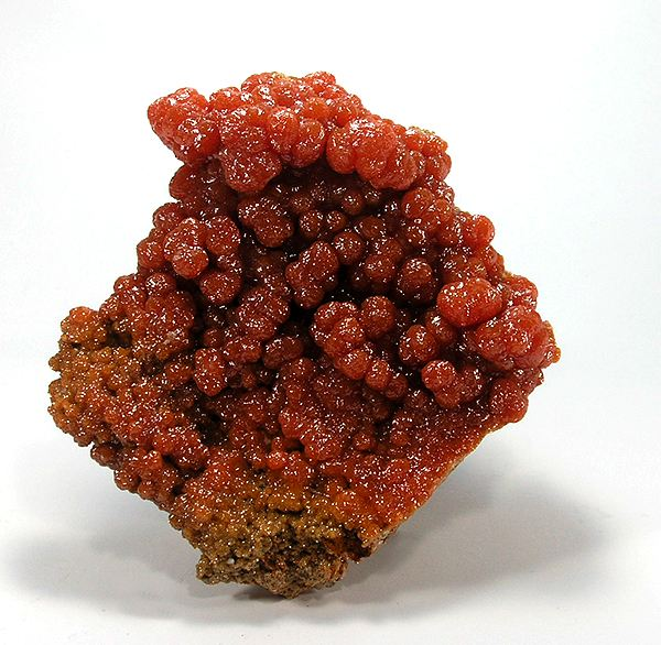 Pyromorphite Locality: Bunker Hill Mine (Tyler; Stemwinder; Bunker Hill and Sullivan; Bunker Chance Mine), Bunker Hill Properties, Kellogg, Coeur d'Alene District, Shoshone County, Idaho, USA (Locality at ) This is a rather large specimen of quality so impressive you have to see it to believe it. The lustre is so bright it is almost glassy, as much as pyro can be. It has a VERY RICH, unusually red-orangey color (due to high Arsenian content). The whole plate is pristine and not only that, but the rolling botryoidal crystallization wraps aorund the edges as well. One of the stars of the pyromorphite suite, without doubt, in this collection. Plates of such size came out about a decade ago and haven't been had since. This piece positively glows with color and is really quite irreplaceable at any price on today's market. 10 x 9.3 x 2.4 cm